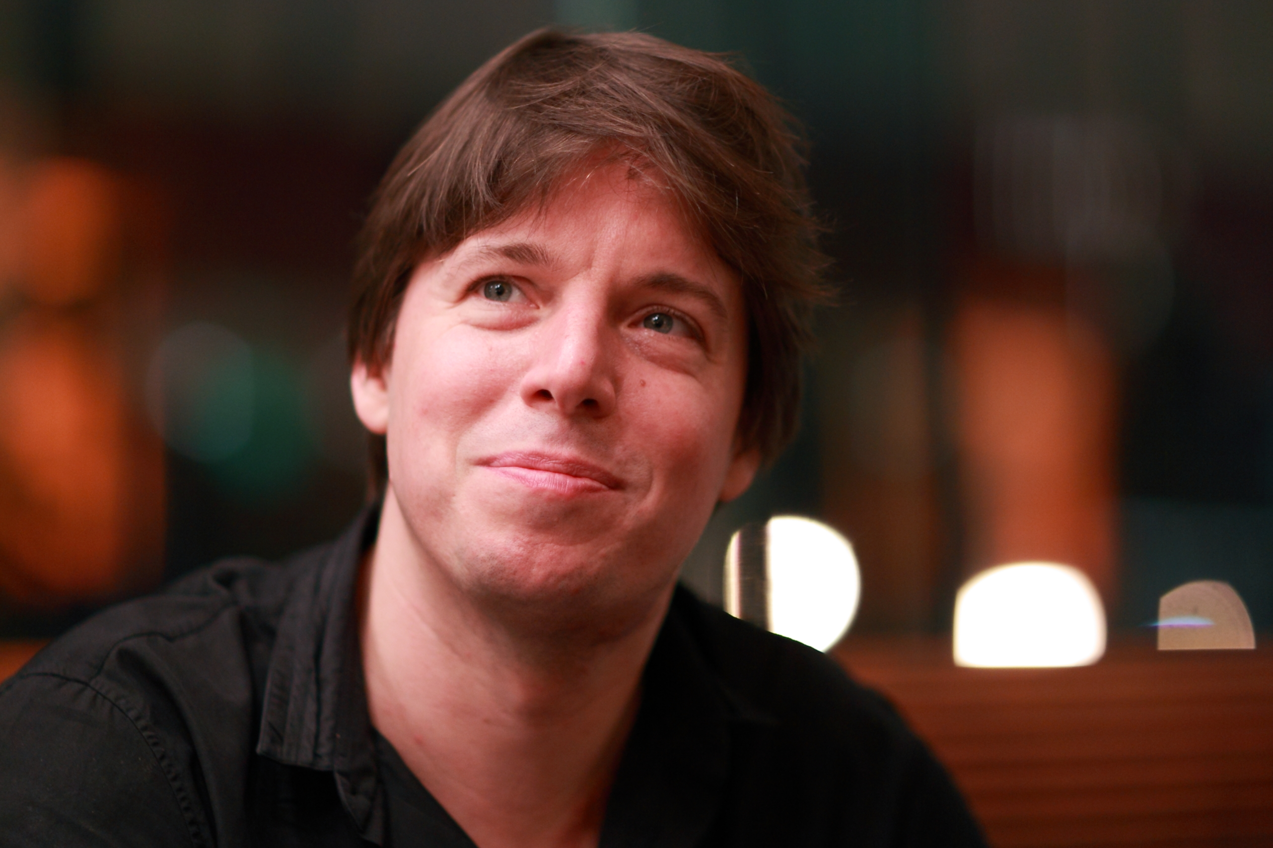 Violinist Joshua Bell following a performance at the San Francisco Symphony in California.